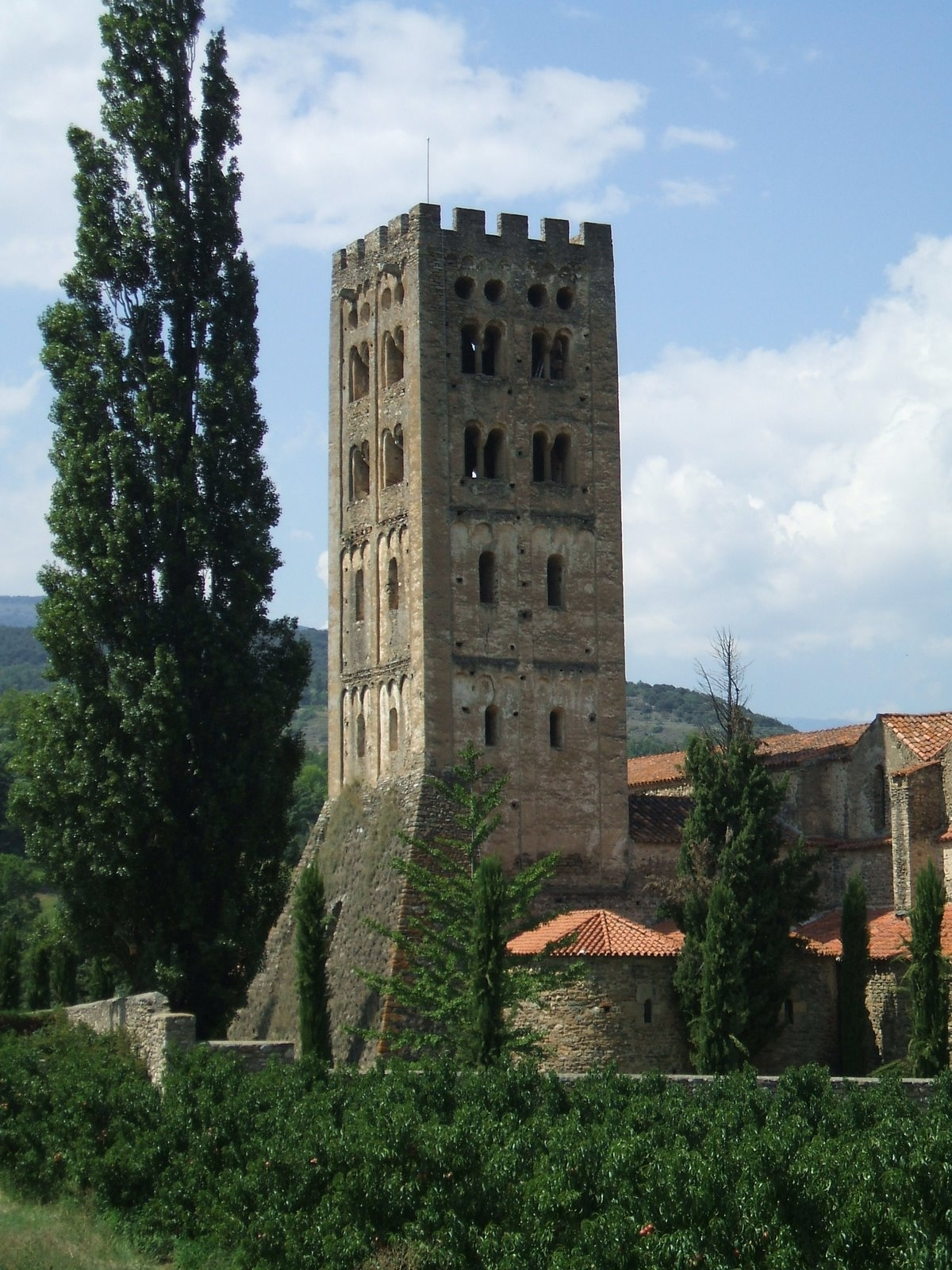 Codalet (Pyrénées-Orientales département, Languedoc-Roussillon région, France) : Abbey of Saint-Michel-de-Cuxa. Southern belltower, added in the XIth century to the Xth century church. Its northern counterpart collapsed in 1838.